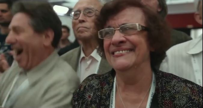 Tamara Golovey at the moment when B. Gelfand won a game against V. Anand (2012)